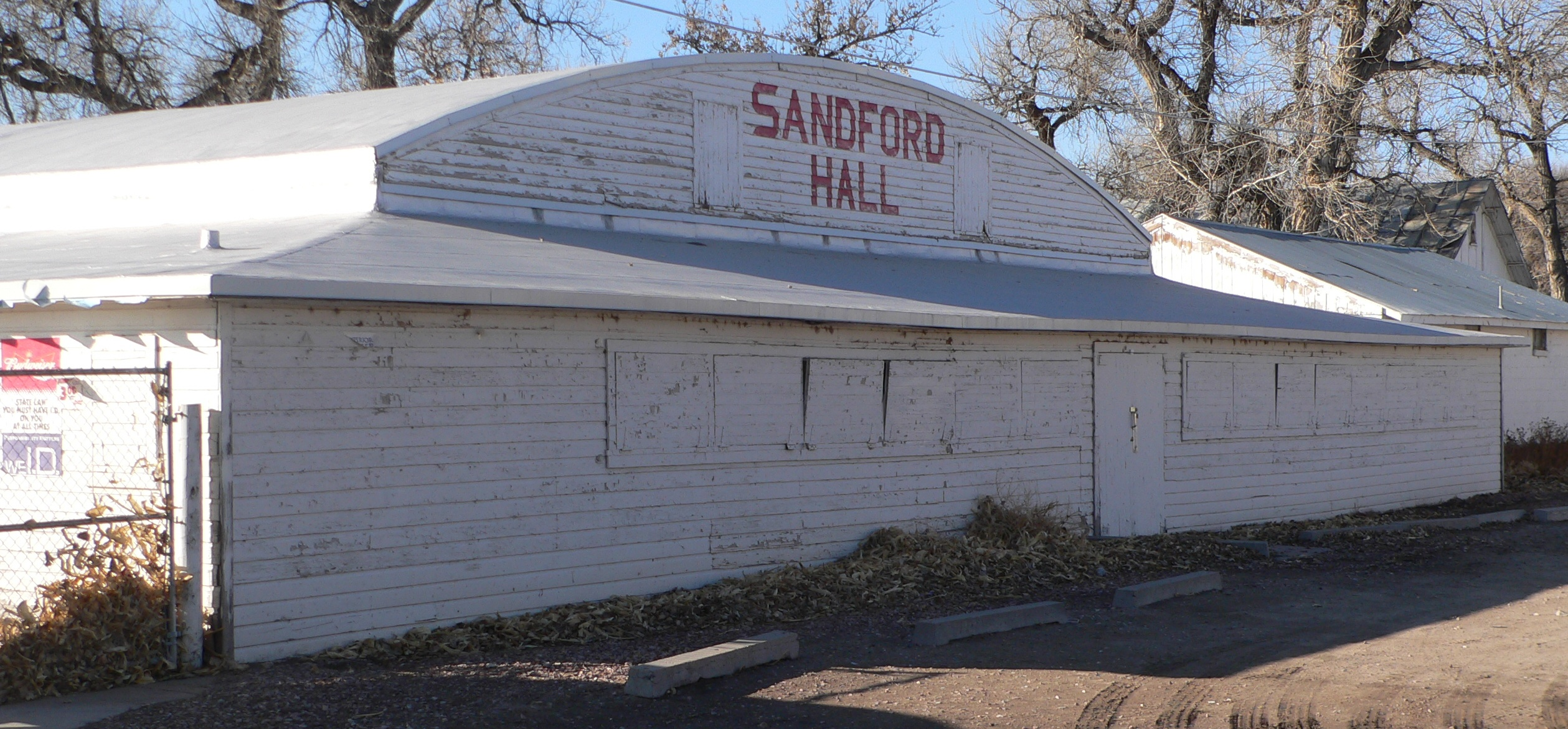 Sandford Hall, located on Scotts Bluff County fairgrounds in Mitchell, Nebraska.